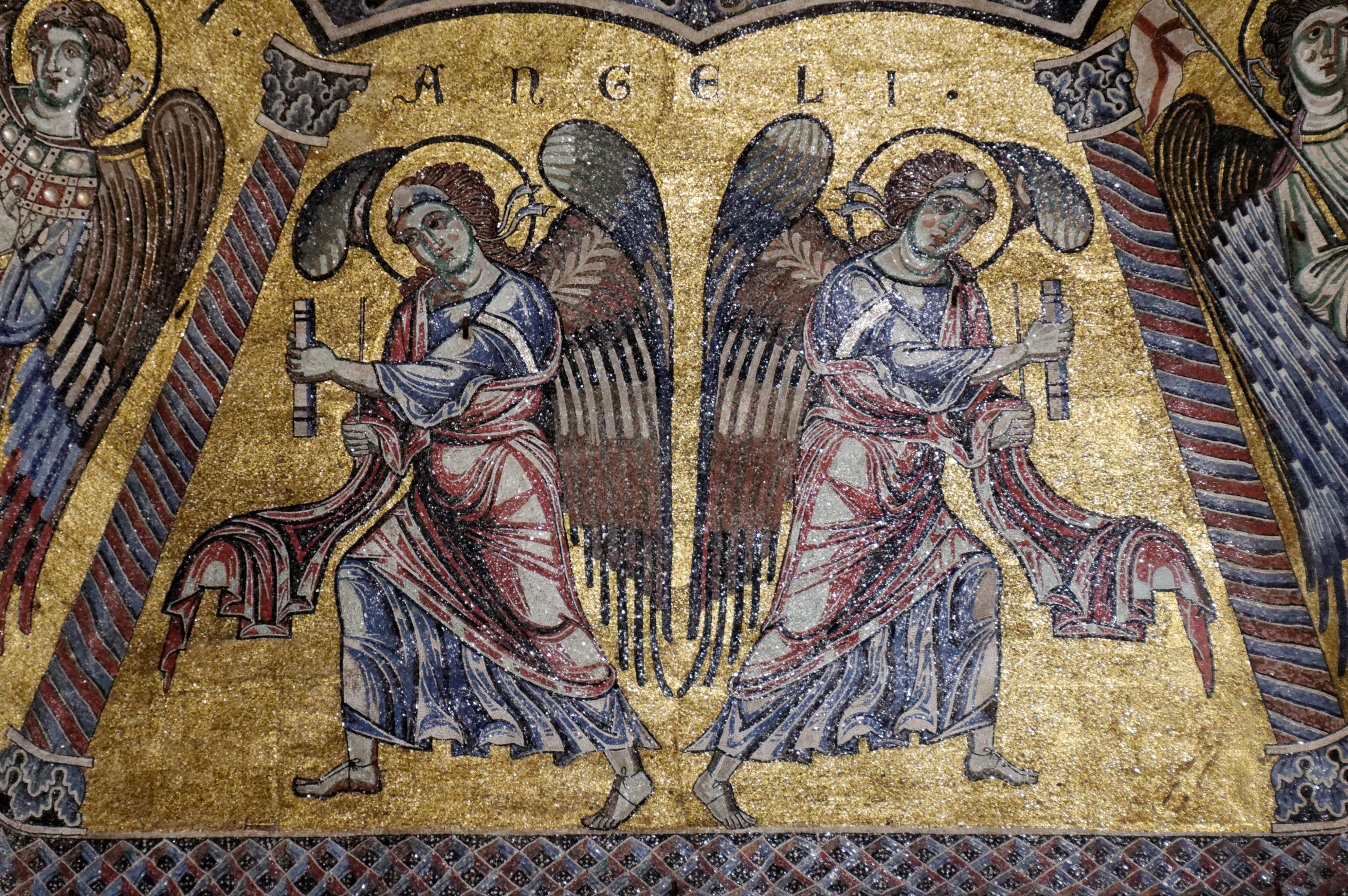 Mosaic ceiling: angelic hierarchy: the angels.